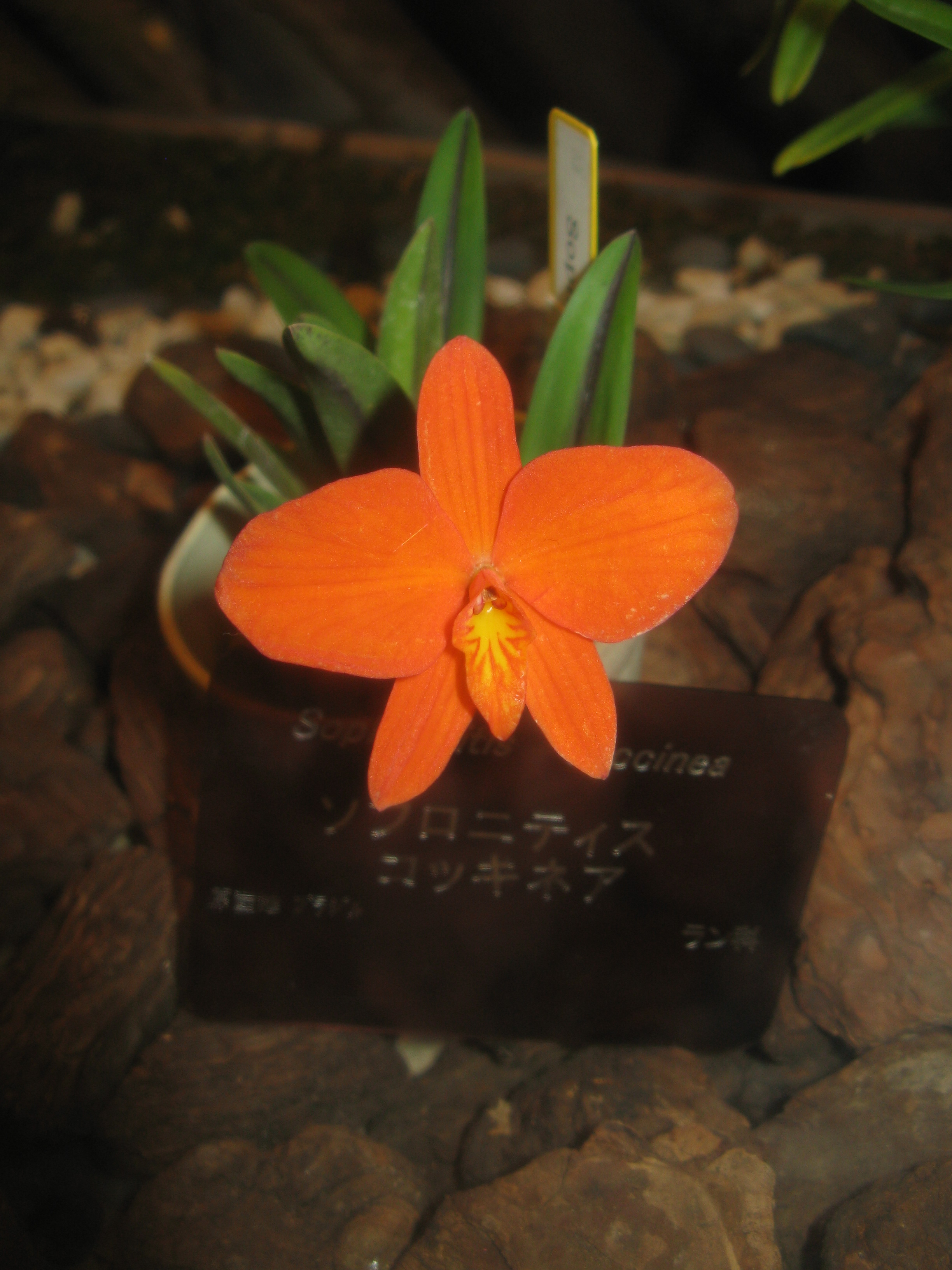 Scientific name Sophronitis coccinea Place:Osaka Prefectural Flower Garden,Osaka,Japan